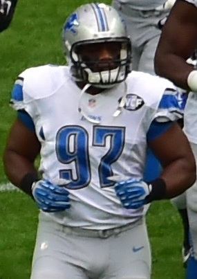 Detroit Lions vs Atlanta Falcons - Wembley 2014